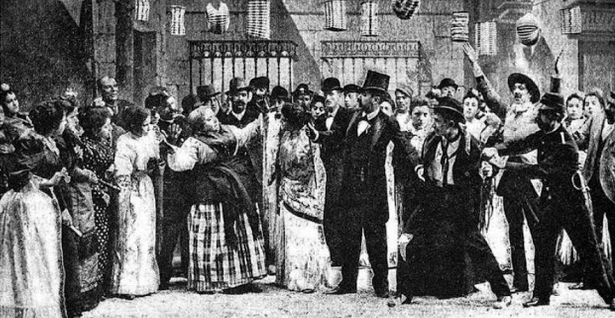 Scenes of the representation of 'La verbena de la Paloma', at the Teatro Eldorado in Barcelona.